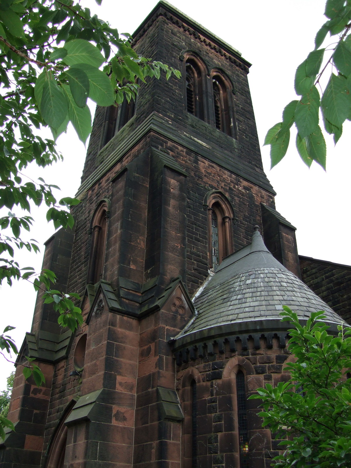 North tower of St James' parish church, Mill Lane, West Derby, Liverpool, seen from the west